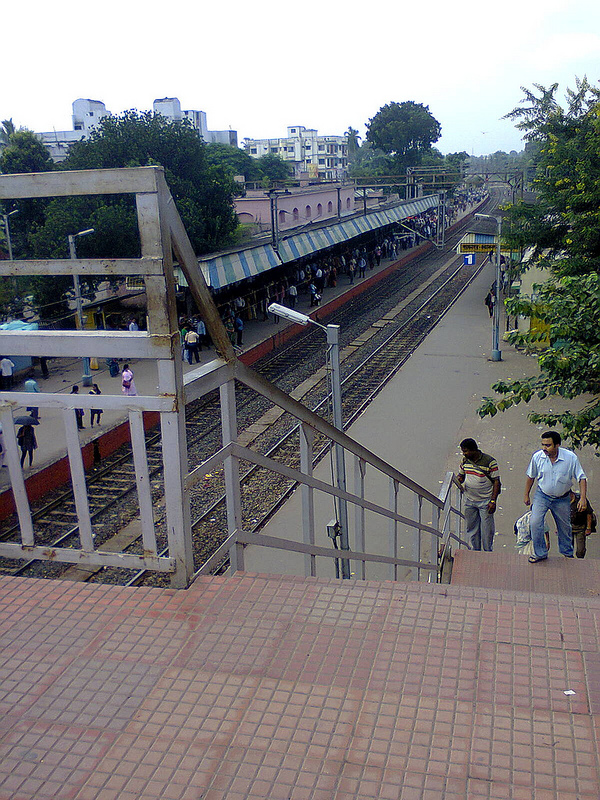 Overbridge of Shyamnagar Railway Station. Connecting station number 1 (right hand) to the rest number of stations, i.e. 2 (seen on left side), 3 and 4.